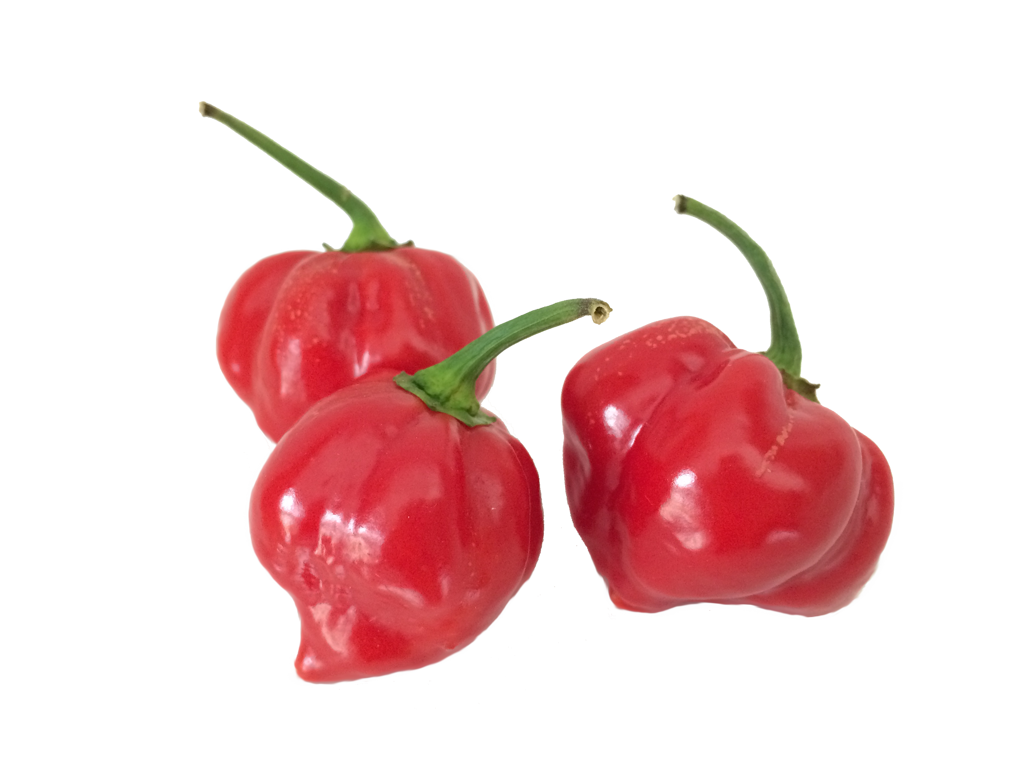 Multiple ripe Habanero peppers